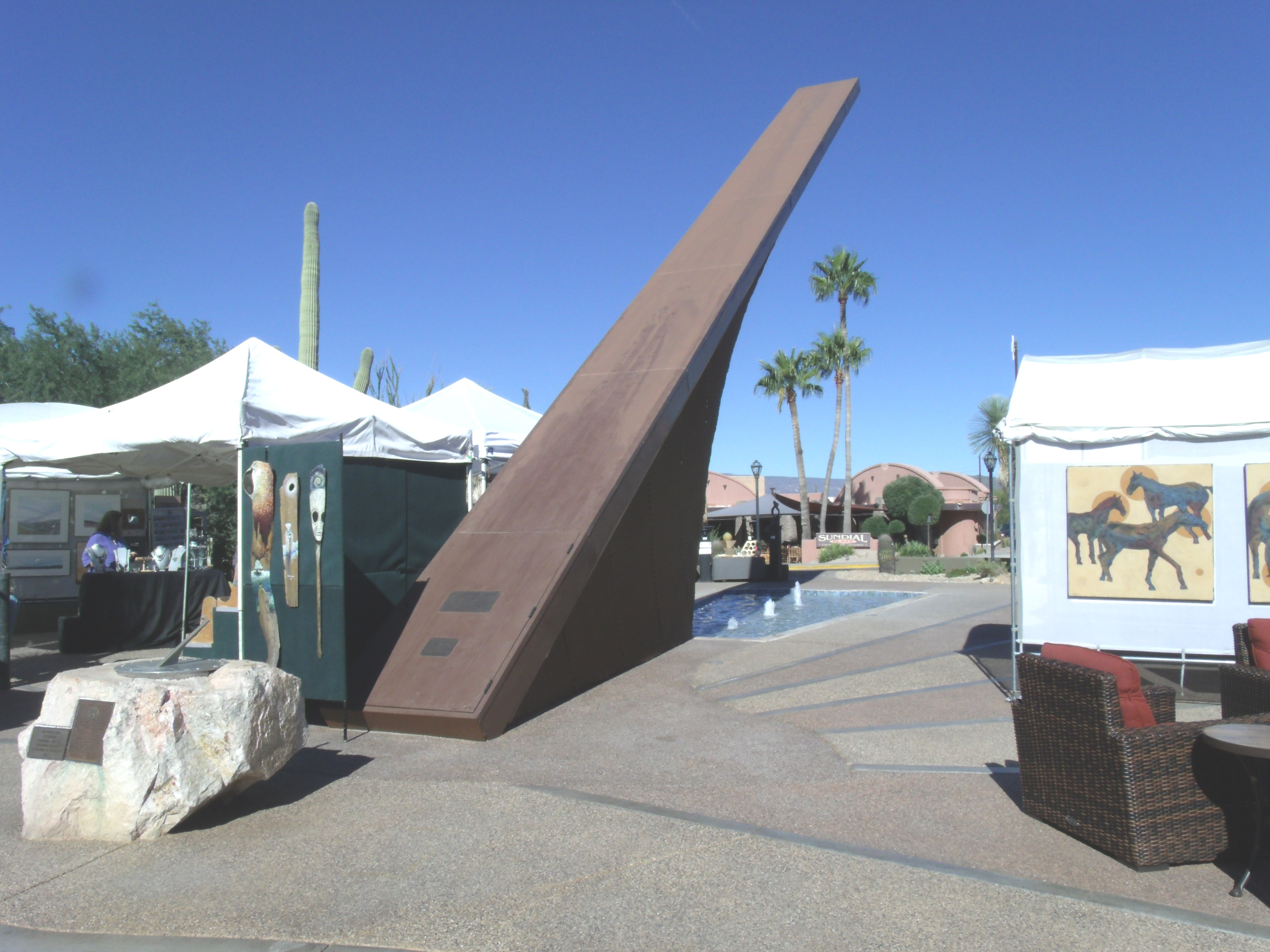 The Carefree Sundial. The largest sundial in the United States is a giant copper-clad fixture located in Sundial Circle in the town of Carefree, Arizona. It was built in 1959 and stretches 62 feet and points to the North Star. The sundial is the third largest in the Western Hemisphere.[1]